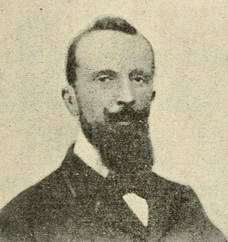 Portrait of the Italian writer Enrico Annibale Butti. In "Illustri italiani contemporanei" by Onorato Roux (Firenze, 1908)